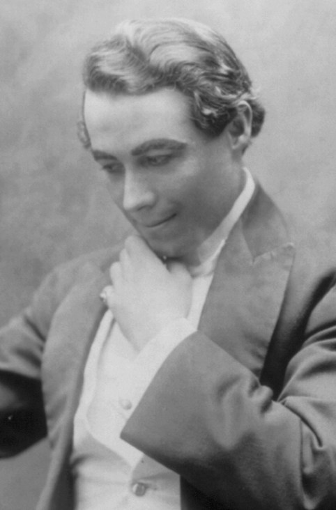 Actor Henry B. Walthall